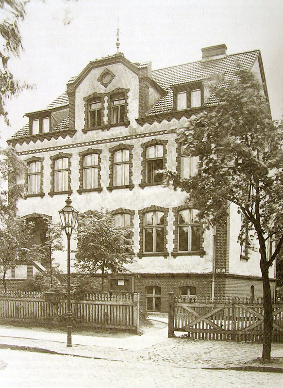 Historical school building Luisenstraße, Tegelort, Berlin